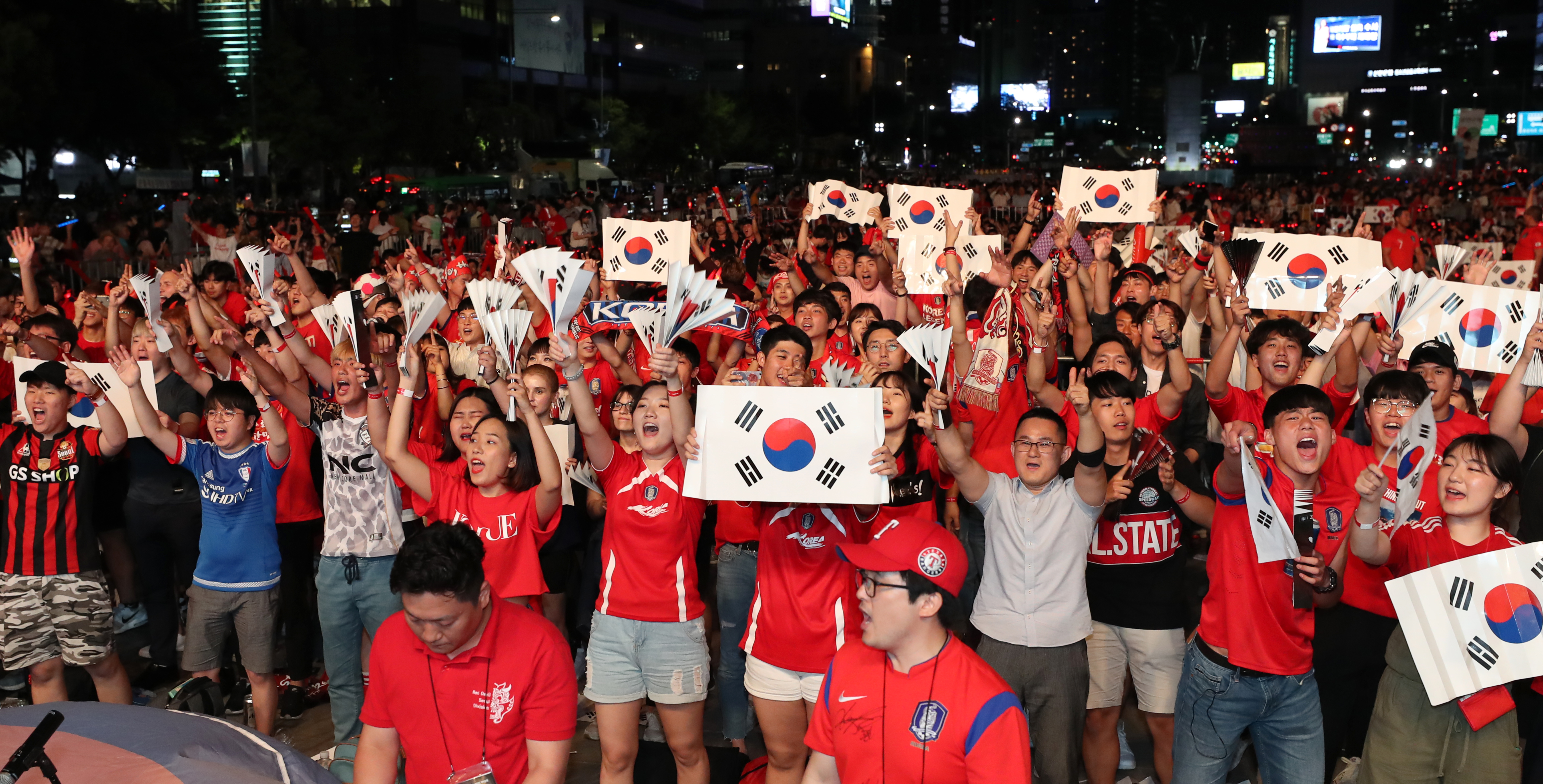 2018 FIFA World Cup Russia: Korea vs Sweden on June 18, 2018 at Gwanghwamun Square, Jongno-gu in Seoul.